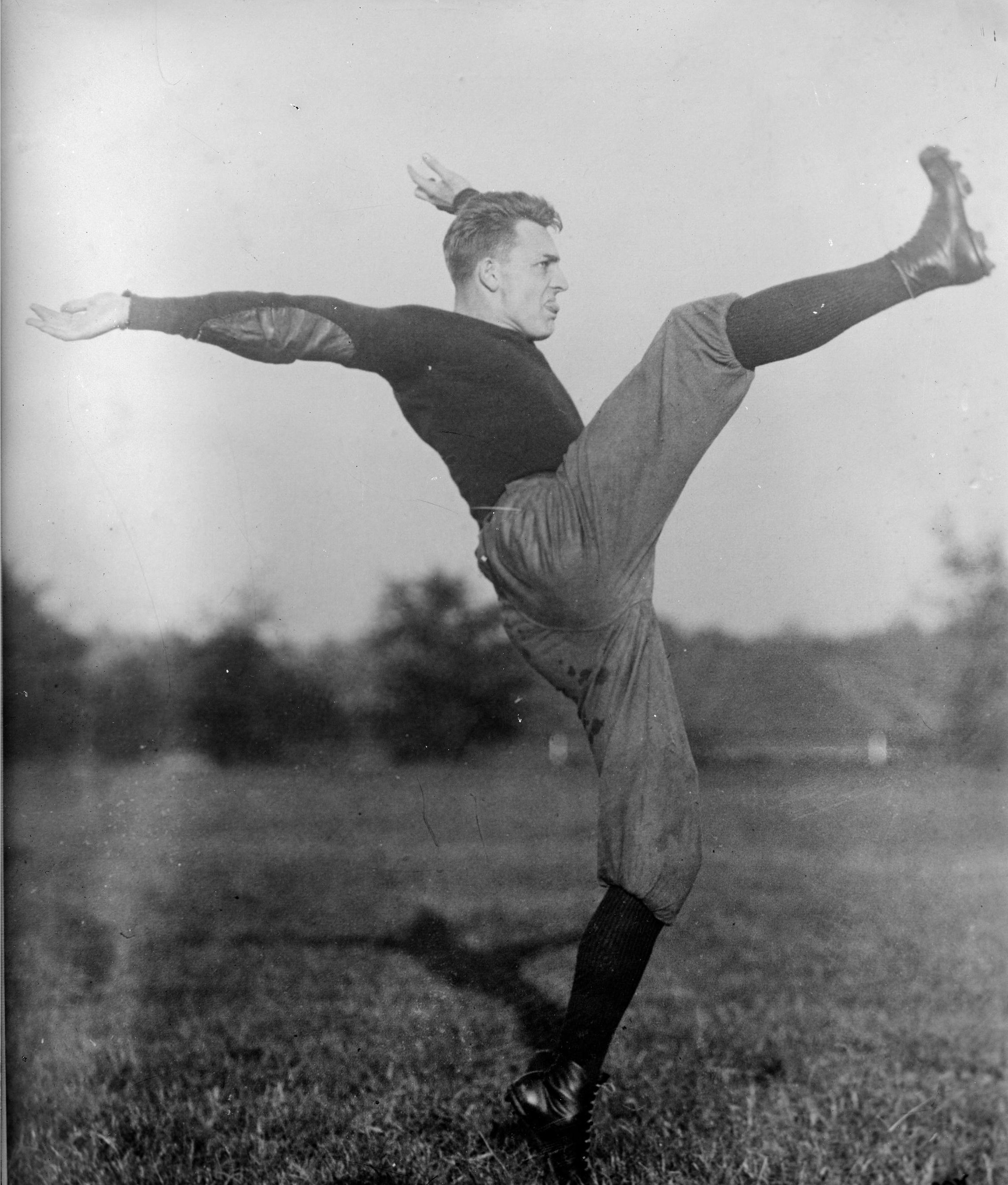 UVA running back Buck Mayer